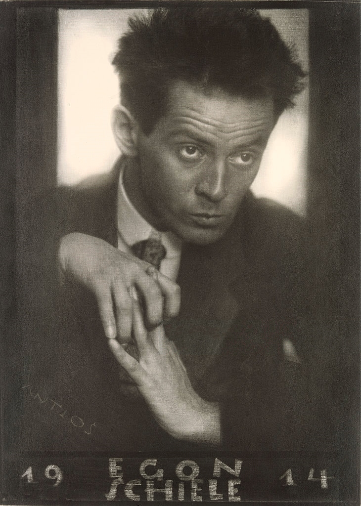 Photographic portrait of Egon Schiele